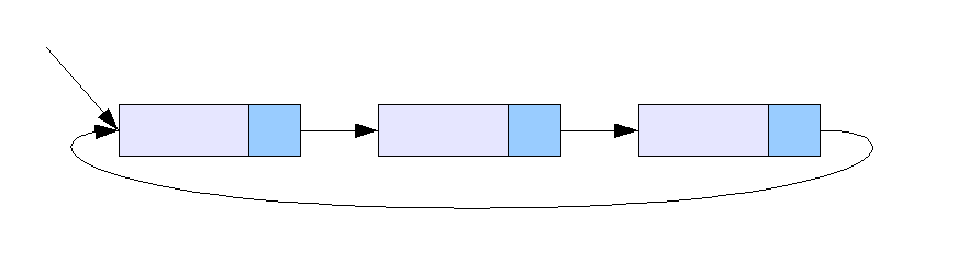 Circular linked list.